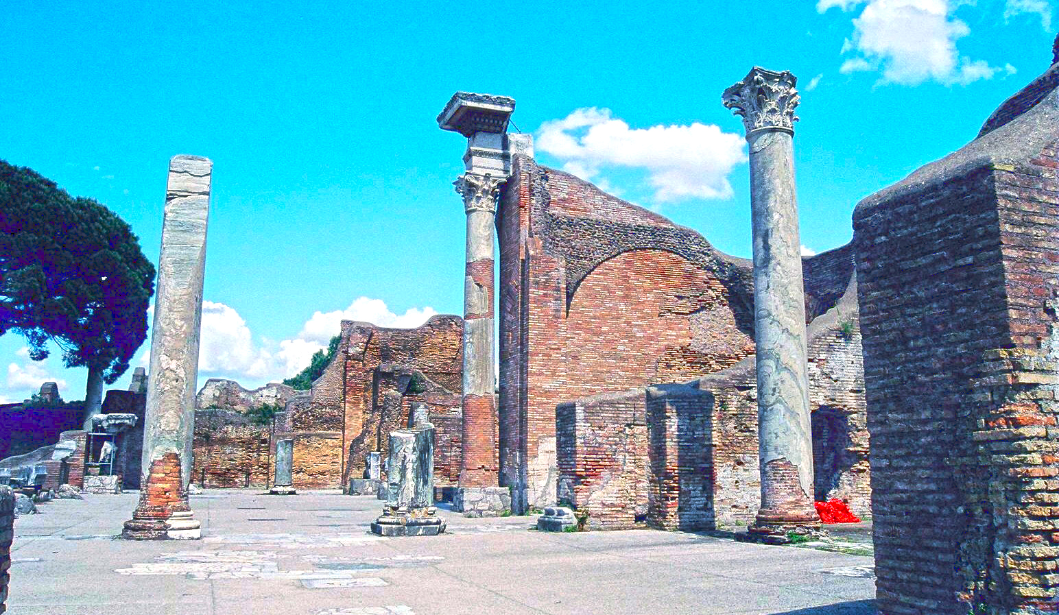 View of the inside of the main Roman baths at Ostia Antica.